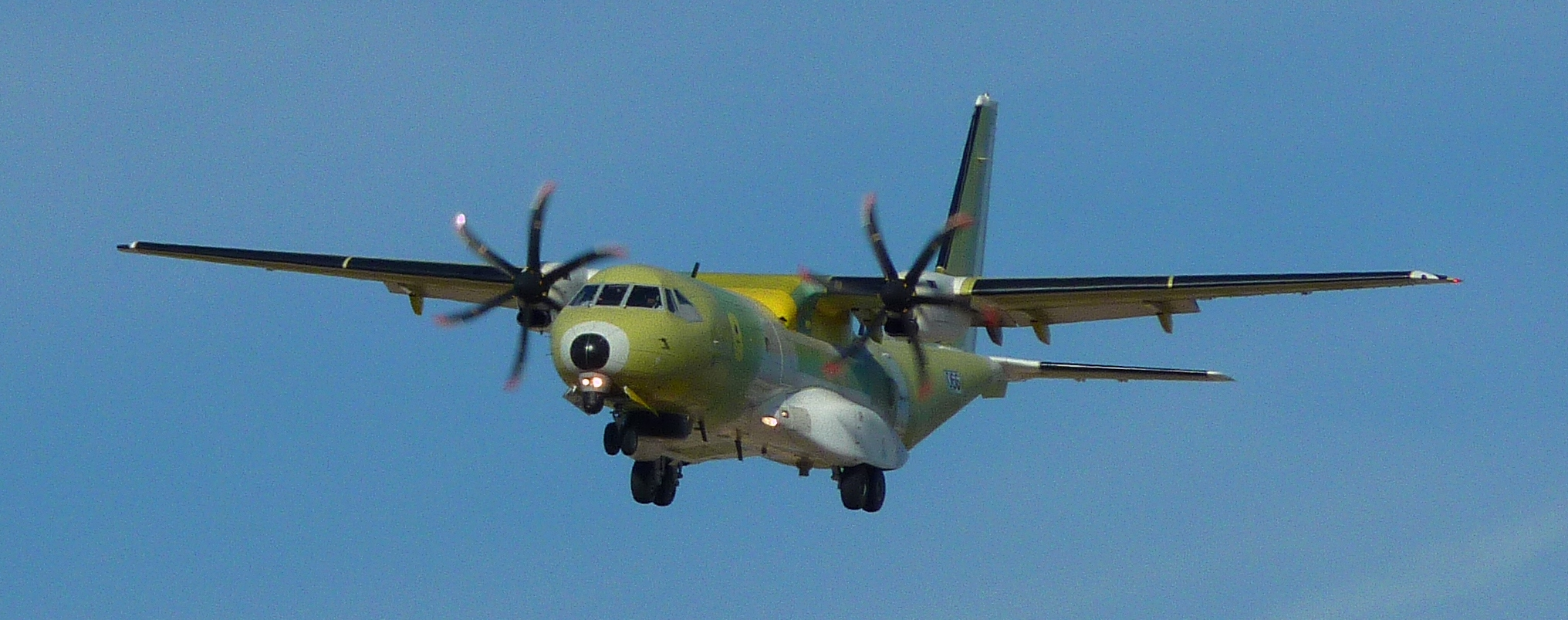 Chilean Navy CASA C-295 Persuader still in primer during a test flight.